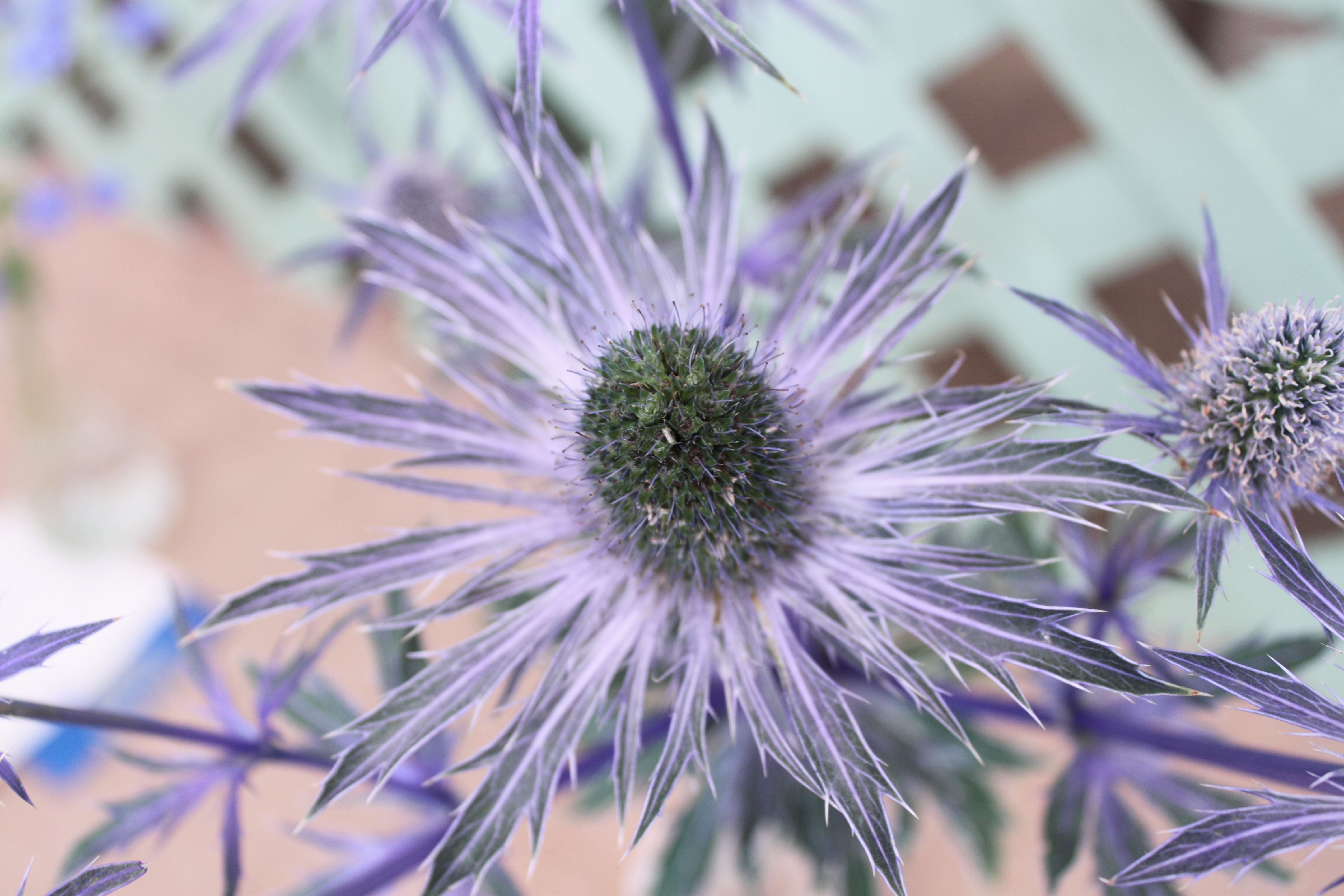 Eryngium planum en 'Blue Glitter' commonly known as Sea Holly taken at the 2011 Newport Flower show at Rosecliff in Newport, Rhode Island.